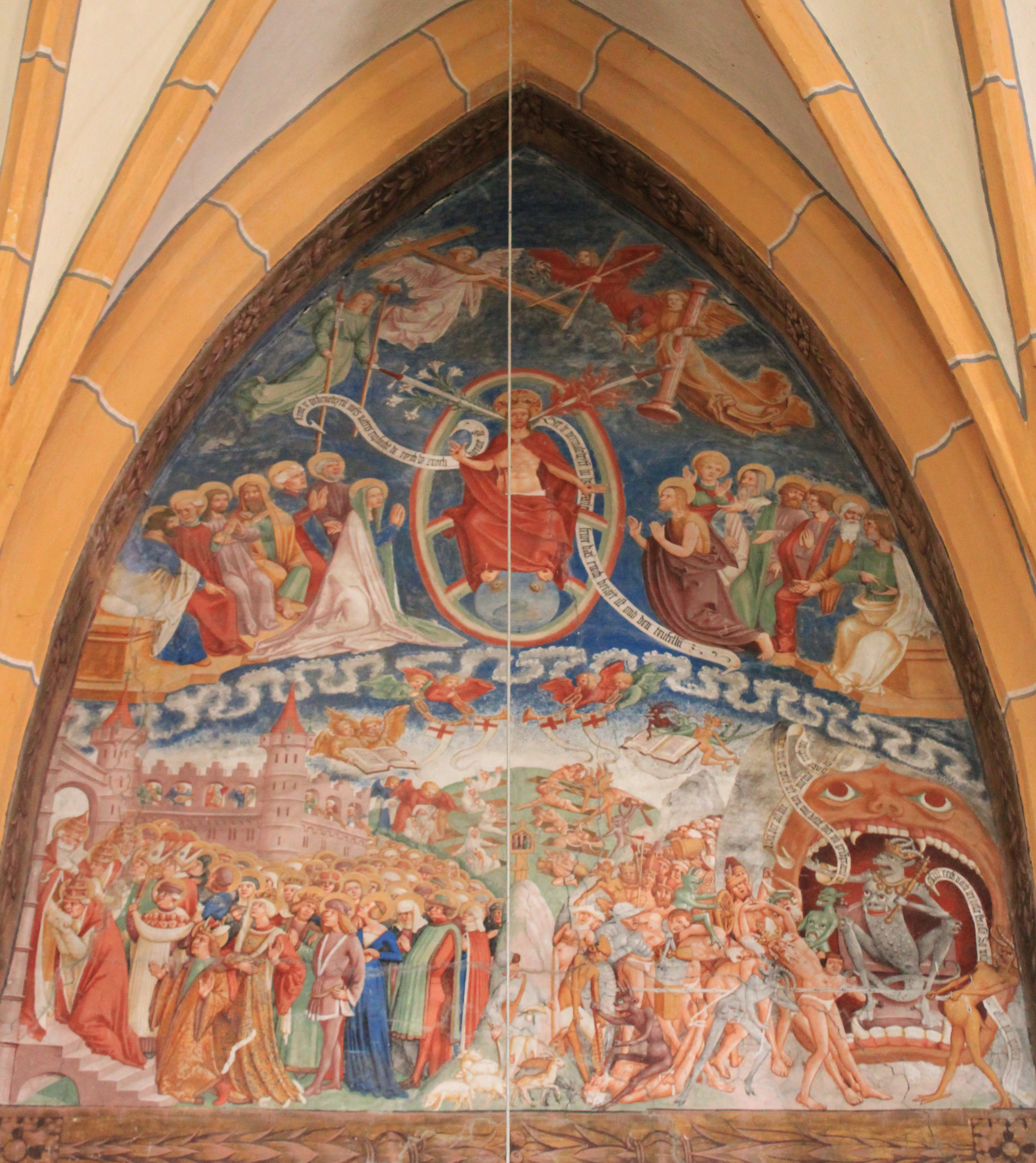 Parishchurch St. Lorenzen im Lesachtal in the community Lesachtal - Last judgement